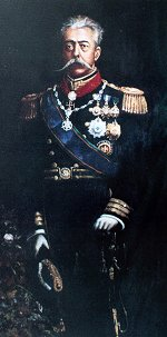 This is a picture of the late 1st Count of Paço d'Arcos taken from his official painting that is hanging in many official institutions in Portugal and in the Museum of the Palace of Governors in Goa, India. It holds no copyright as it is a digitalization of his official painting from the 19th Century.